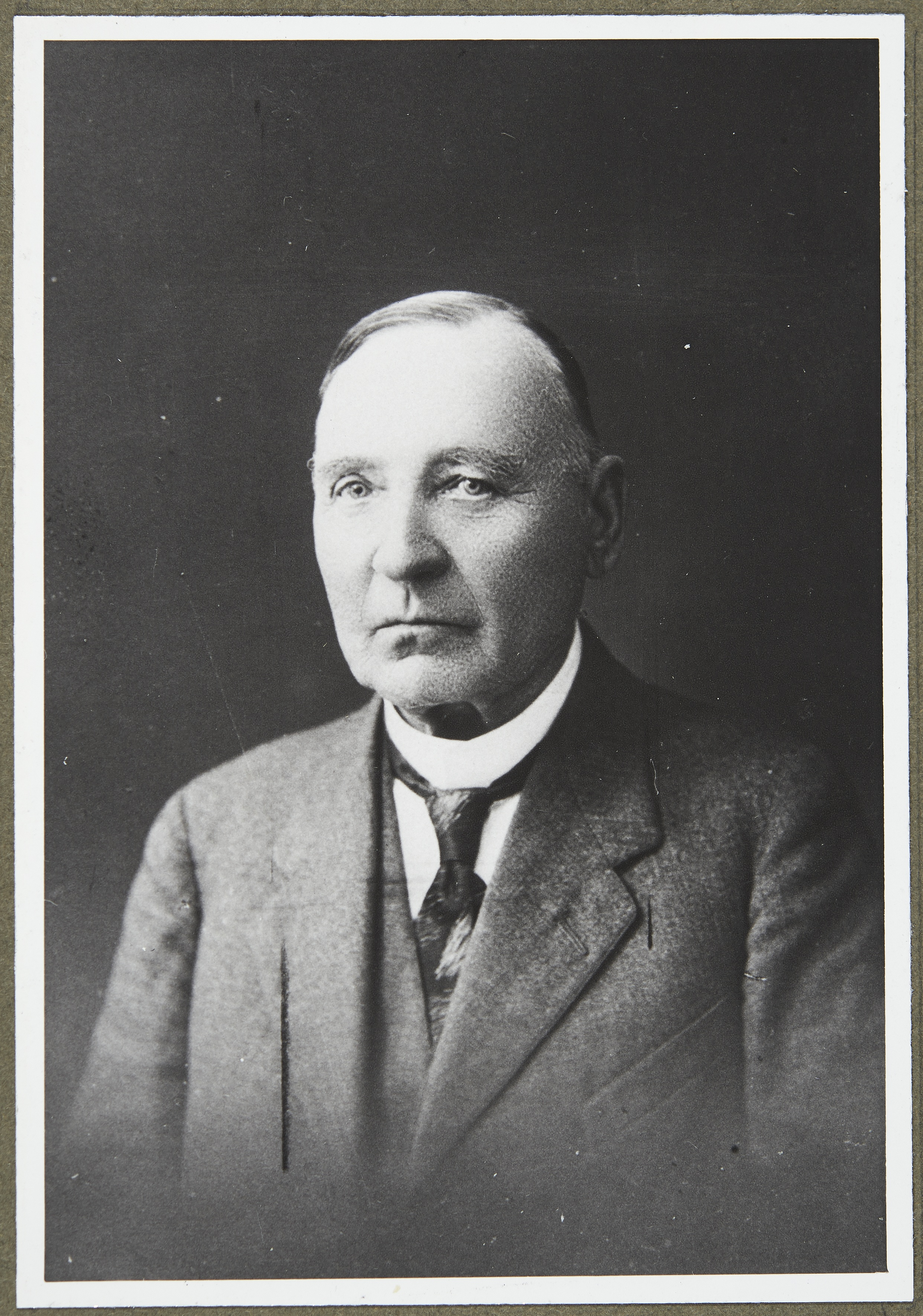 Photograph of the Finnish businessman and patron Artturi Helenius (1878–1959).